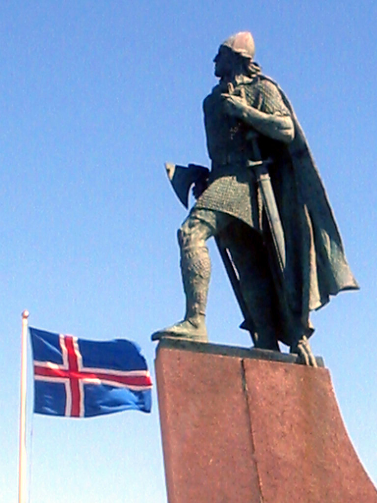 Early life in Iceland It is believed that Leif was born about 970 AD in Iceland[2], the son of Erik the Red (Old Norse: Eiríkr inn rauði), a Norwegian explorer and outlaw and himself the son of another Norwegian outlaw, Þorvaldr Ásvaldsson. Leif's mother was Thjodhild (Þjóðhildr).[3] Erik the Red had founded two Norse colonies in Greenland, the Western Settlement and the Eastern Settlement, as he had named them. Apparently, Leif Ericsson had two brothers, Þorvaldr and Þorsteinn, and one sister, Freydís. Leif married a woman named Thorgunna, and they had one son, Þorkell Leifsson.